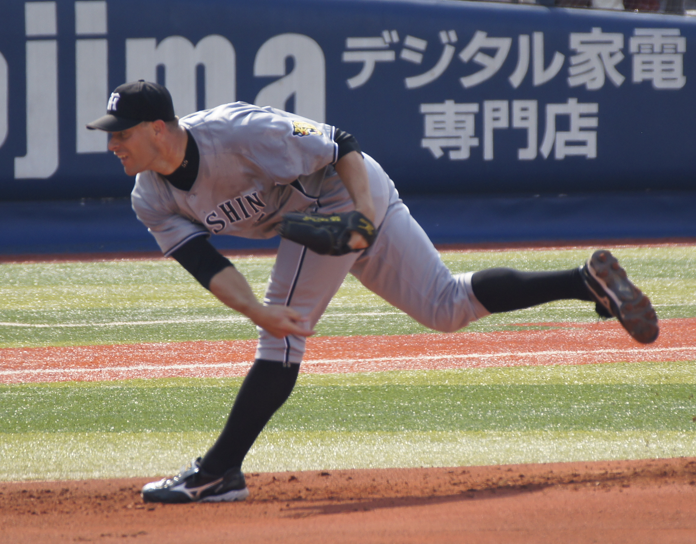 Jason Standridge, pitcher of the Hanshin Tigers, at Yokohama Stadium.